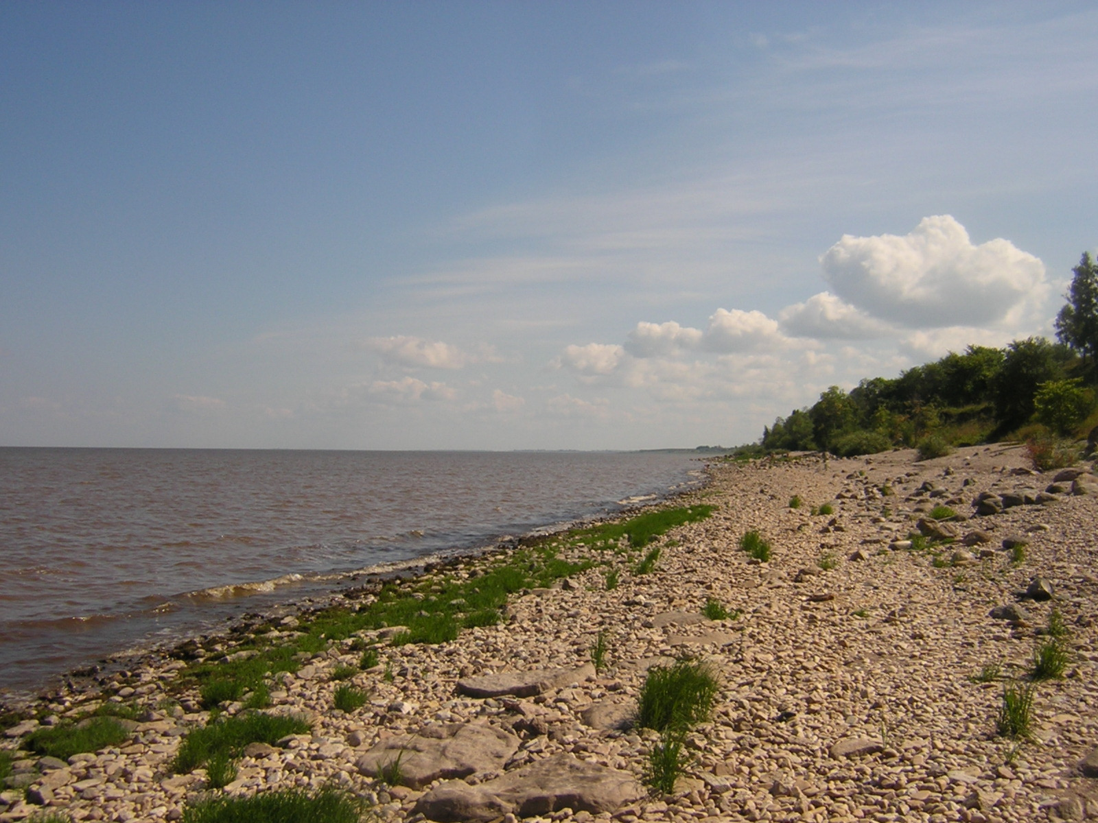 Ilmen lake coast by Korostyn